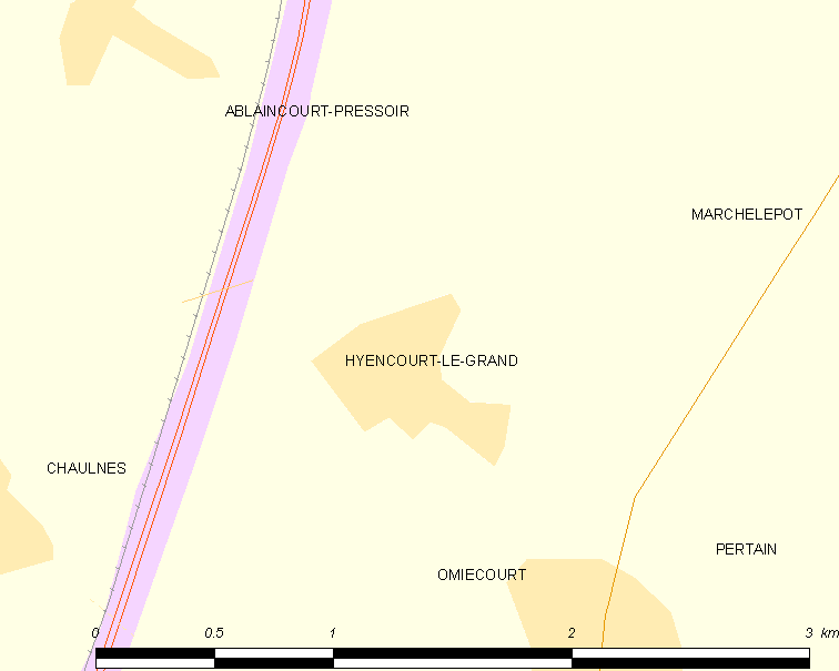 Map of French municipality Hyencourt-le-Grand